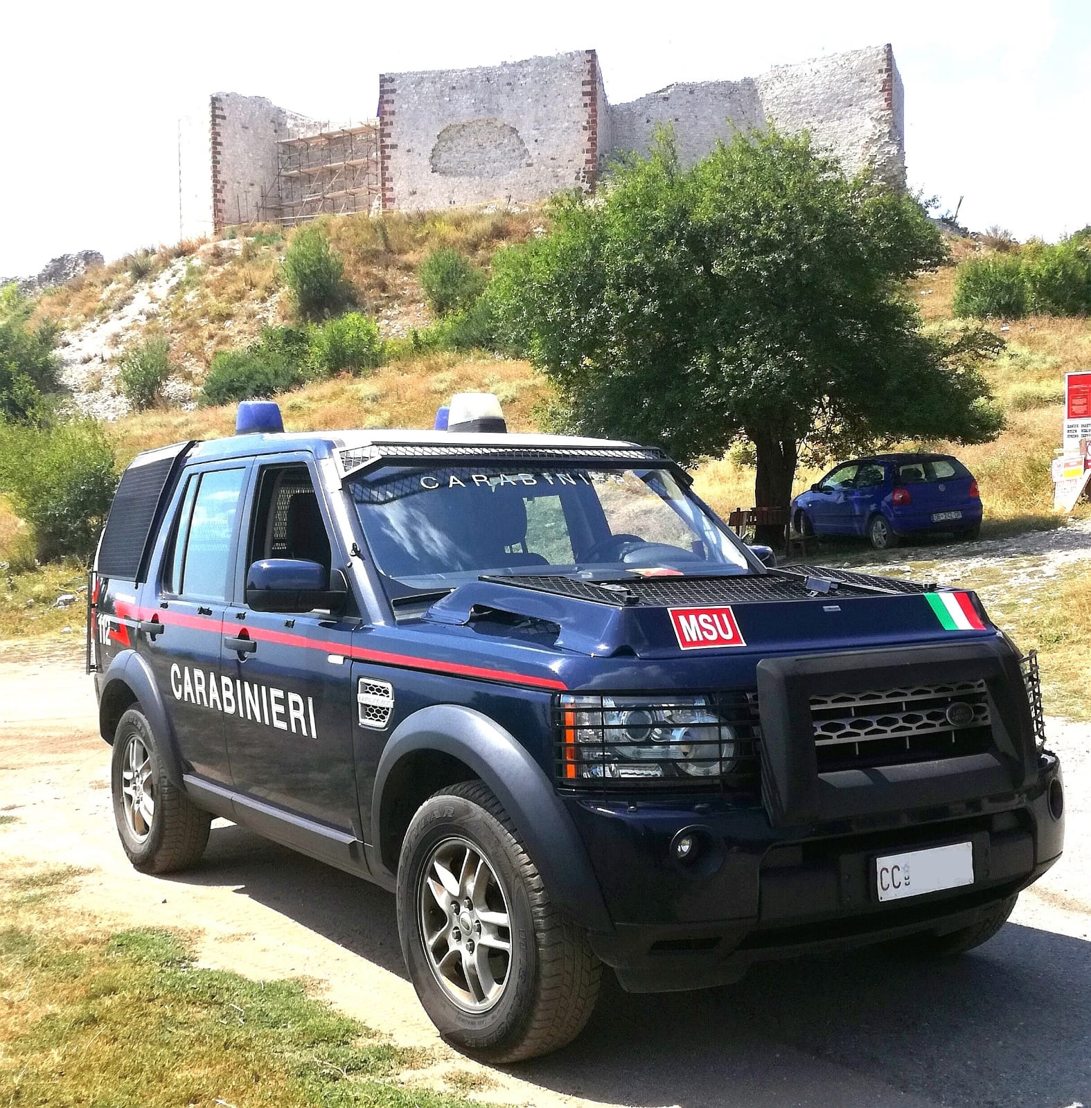 Land Rover Discovery 4 with Crowd and Riot Control Protection, parked in front of Nova Brdo Fortress (Kosovo).